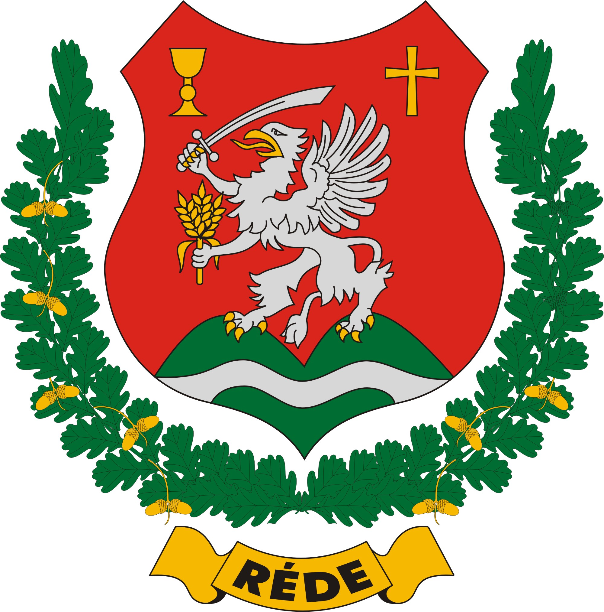 Coat of arms of Réde, Hungary